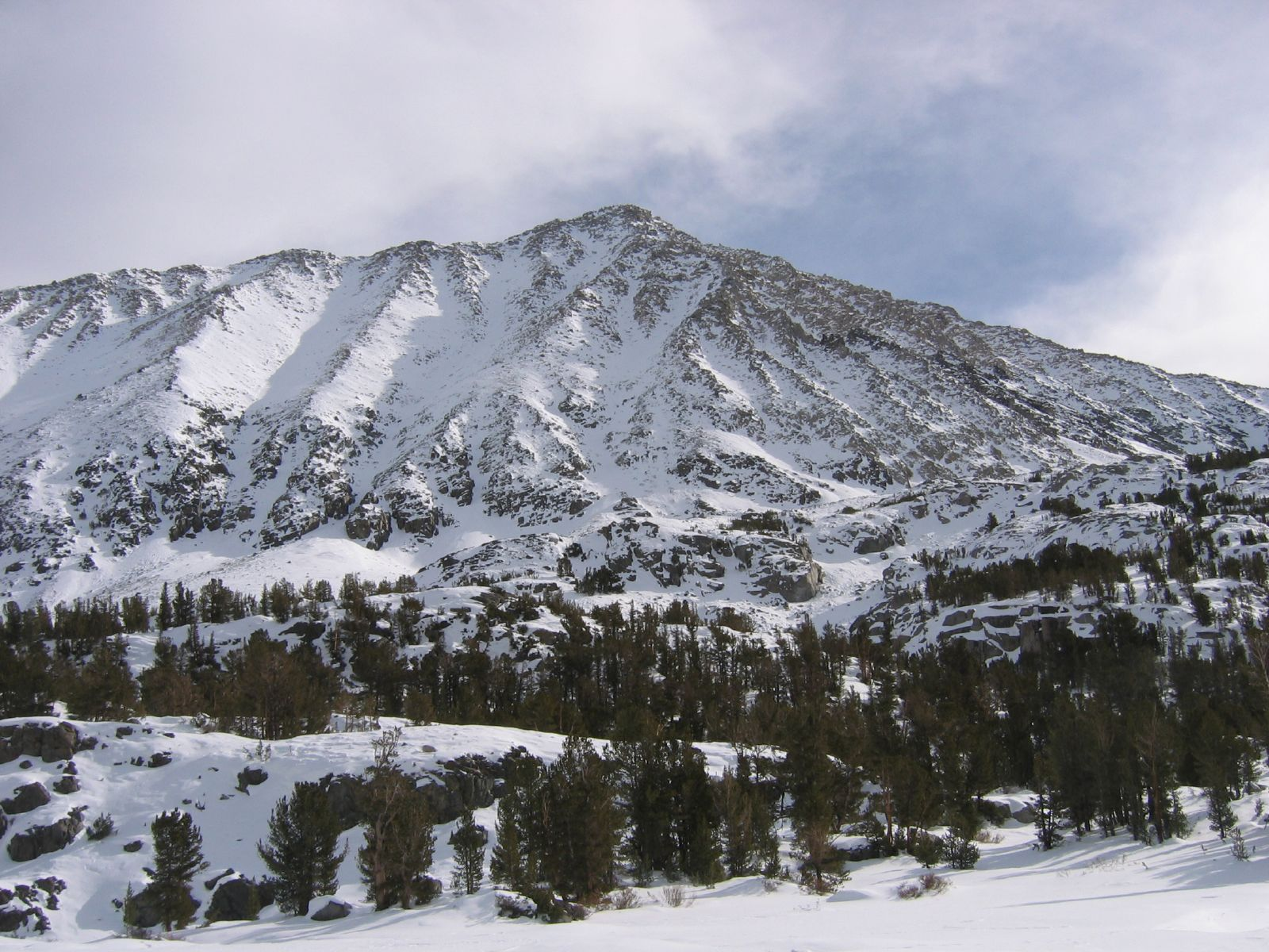 View of Mount Morgan in the Sierra Nevada. Inyo County, California, USA.Mt Morgan